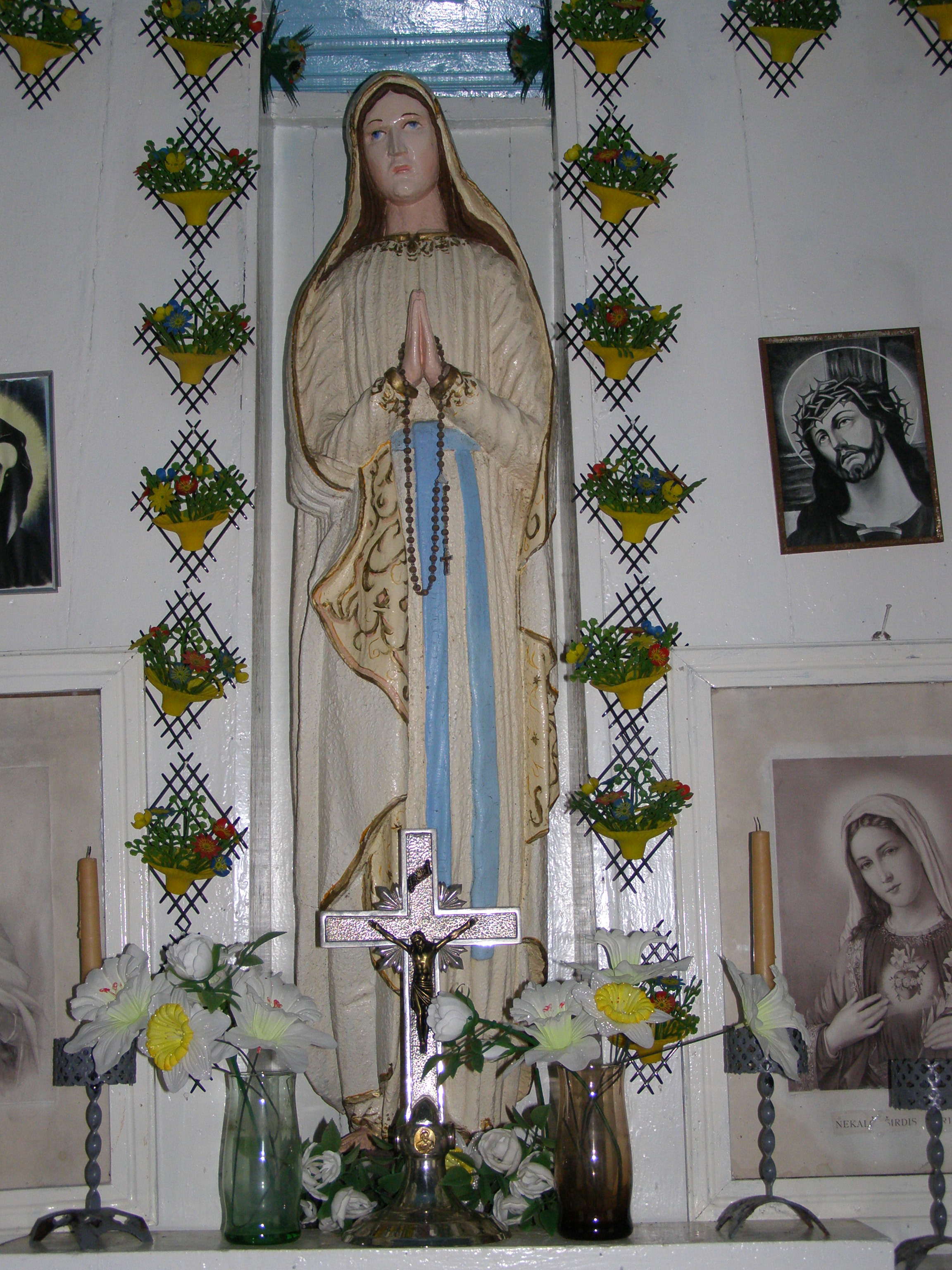 Naujoji Įpiltis, Kretinga district, LithuaniaLietuvių: Naujosios Įpilties Švč. Mergelė Marija, Kretingos rajonas, Lietuva